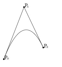 A bezier curve, drawn in html5 canvas